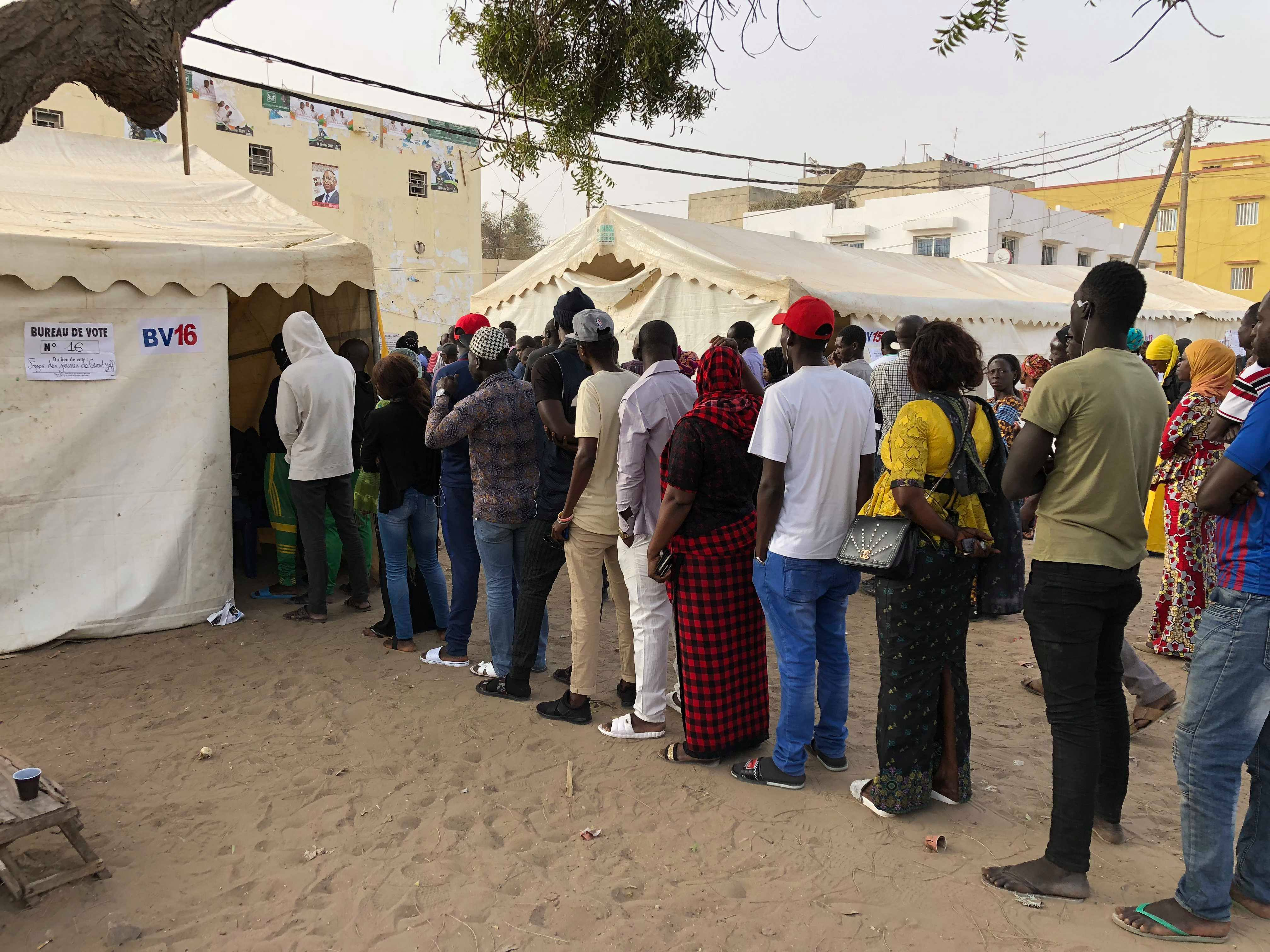 Senegalese voters queueing in Grand Yoff (Dakar) for the presidential election.